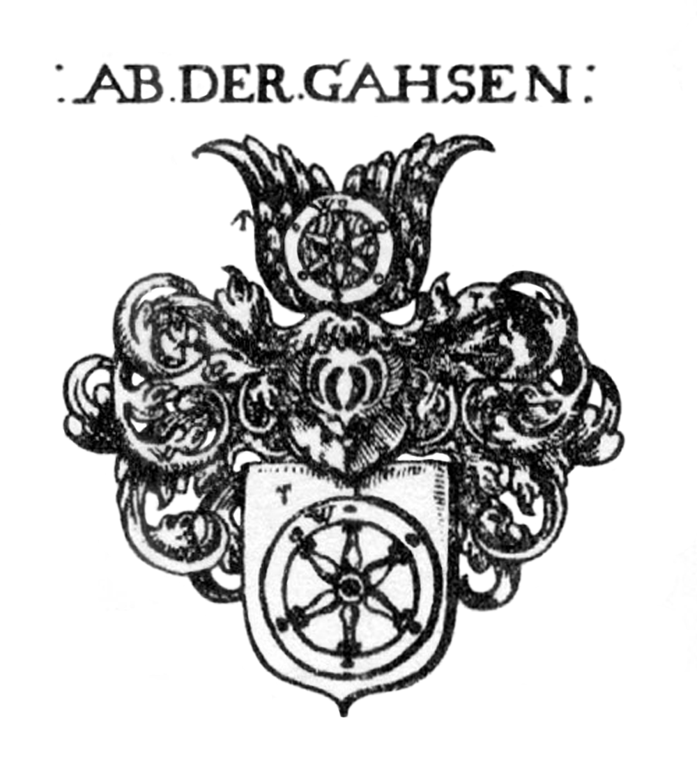 Coat of arms of An der Gassen